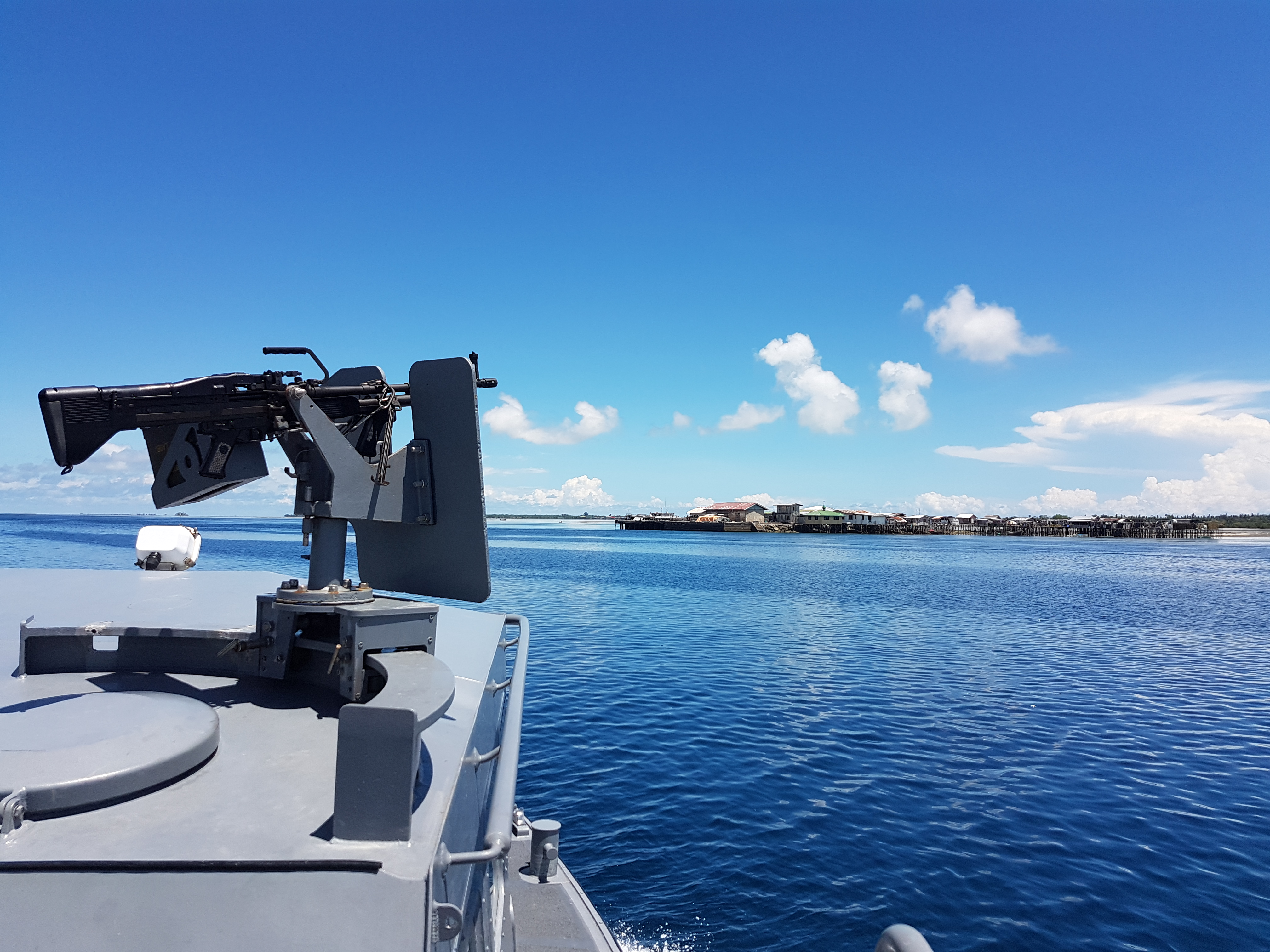 The village of Sitangkai Poblacion as viewed from a Philippine Navy attack craft during the mapping, reconnaissance, and deployment mission of the Philippine Marine Corps together with Schadow1 Expeditions